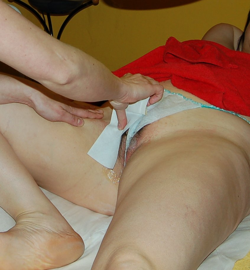 the groin area of a woman is treated with hot wax